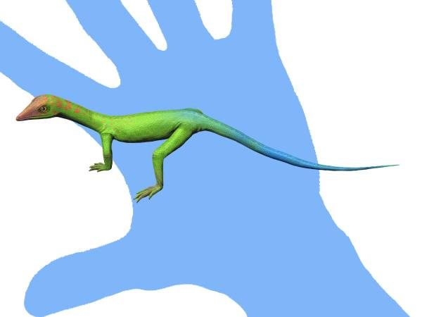 Life reconstruction of Cosesaurus aviceps